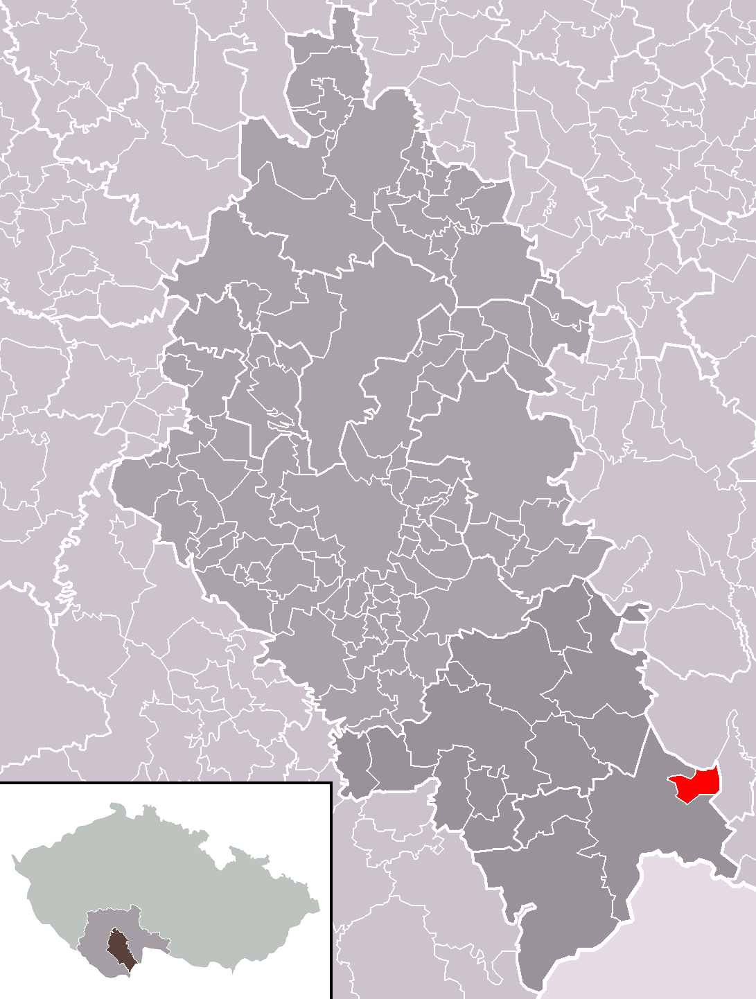 Location of Hranice municipality within České Budějovice District and administrative area of Trhové Sviny as a Municipality with Extended Competence.